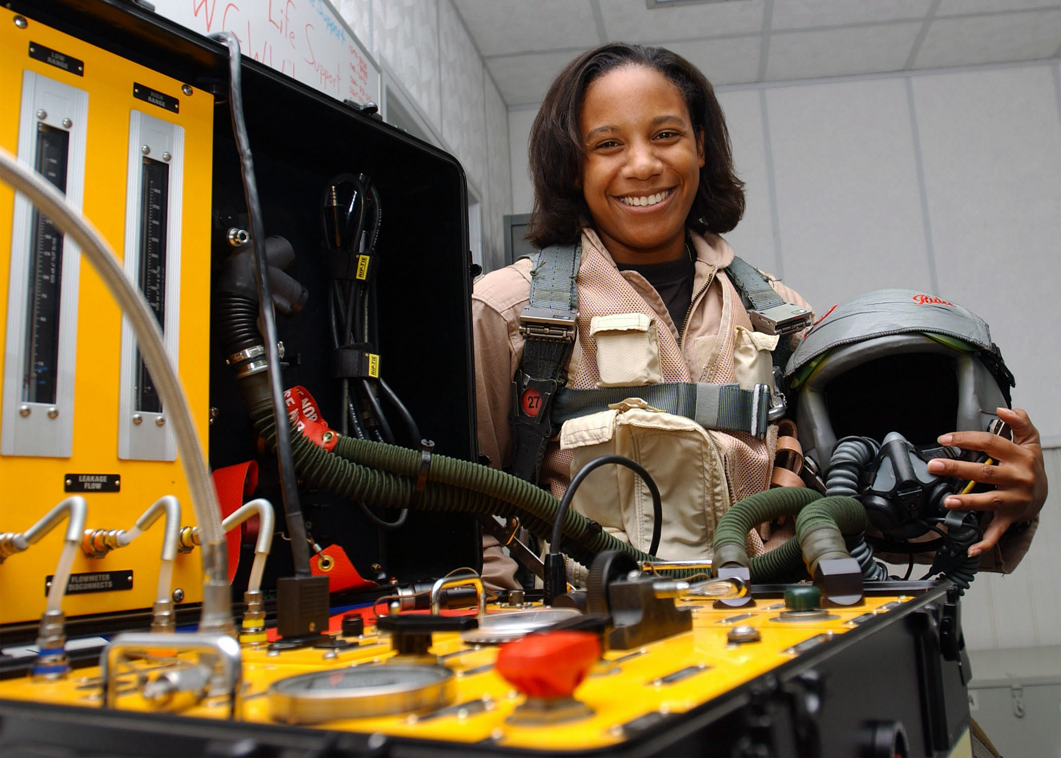 First Lieutenant Shawna Rochelle Ng-A-Qui (Kimbrell), USAF, an F-16 pilot with the 13th Fighter Squadron at Misawa Air Base, Japan, recently completed her first operational tour at Operation NORTHERN WATCH. The TTU-529/E Manside Tester in the foreground is used by life support personnel to test oxygen equipment on pilot's flight helmets. Operation NORTHERN WATCH is a Combined Task Force (CTF) charged with enforcing the no-fly zone north of the 36th parallel in Iraq and monitoring Iraqi compliance with UN Security Council resolution 678, 687, and 688. The northern no-fly zone is not an aggression against Iraq or a violation of its sovereignty, it is a necessary and legitimate measure to limit Iraqis aggressive air activities.